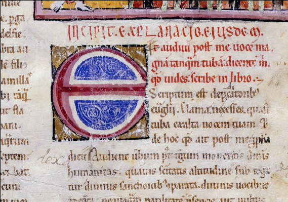 Illuminated Manuscript lettering detail from a page of commentary about Rev. 1:12–20.